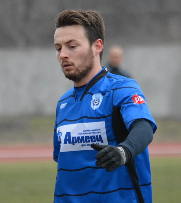 Dutch footballer Marc Klok